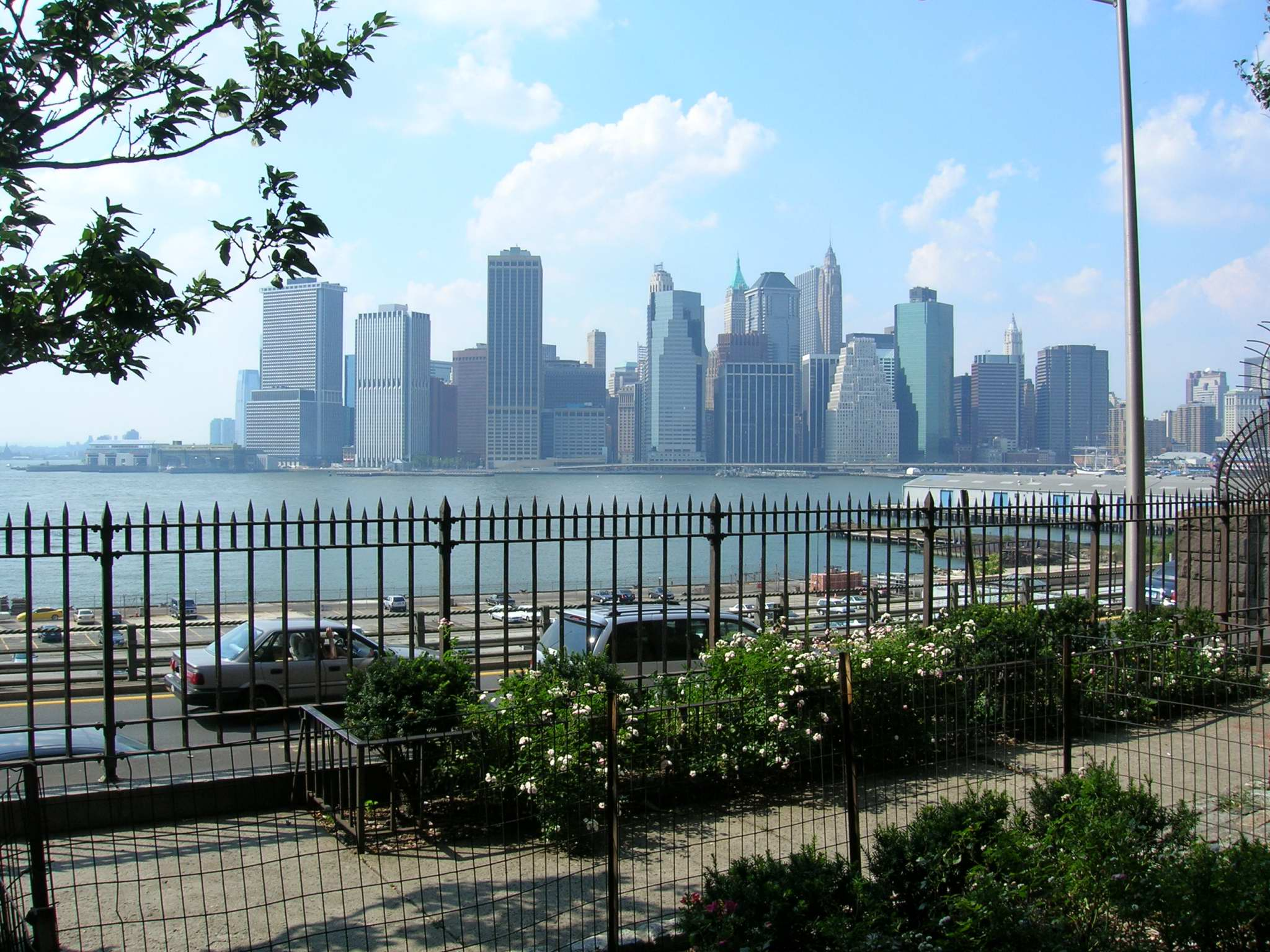 Manhattan from Brooklyn